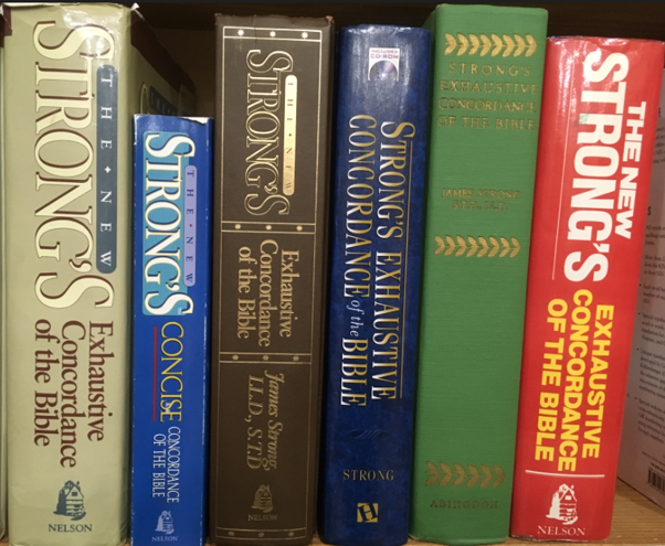 Various editions and reprints of Strong's Concordance